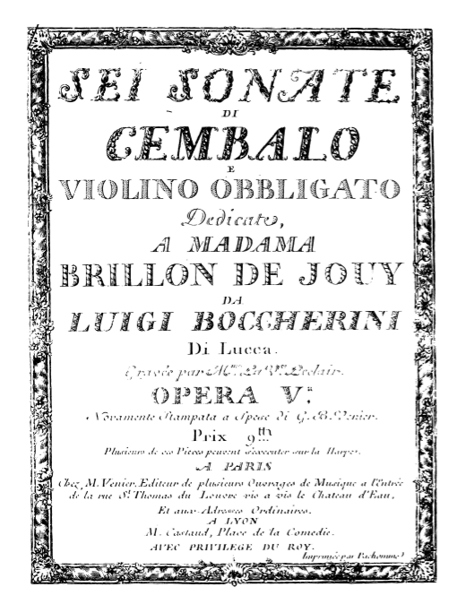 Title page Luigi Boccherini's "sei sonate di cembalo e violino obbligato", Opus 5. Venier, Paris 1769.